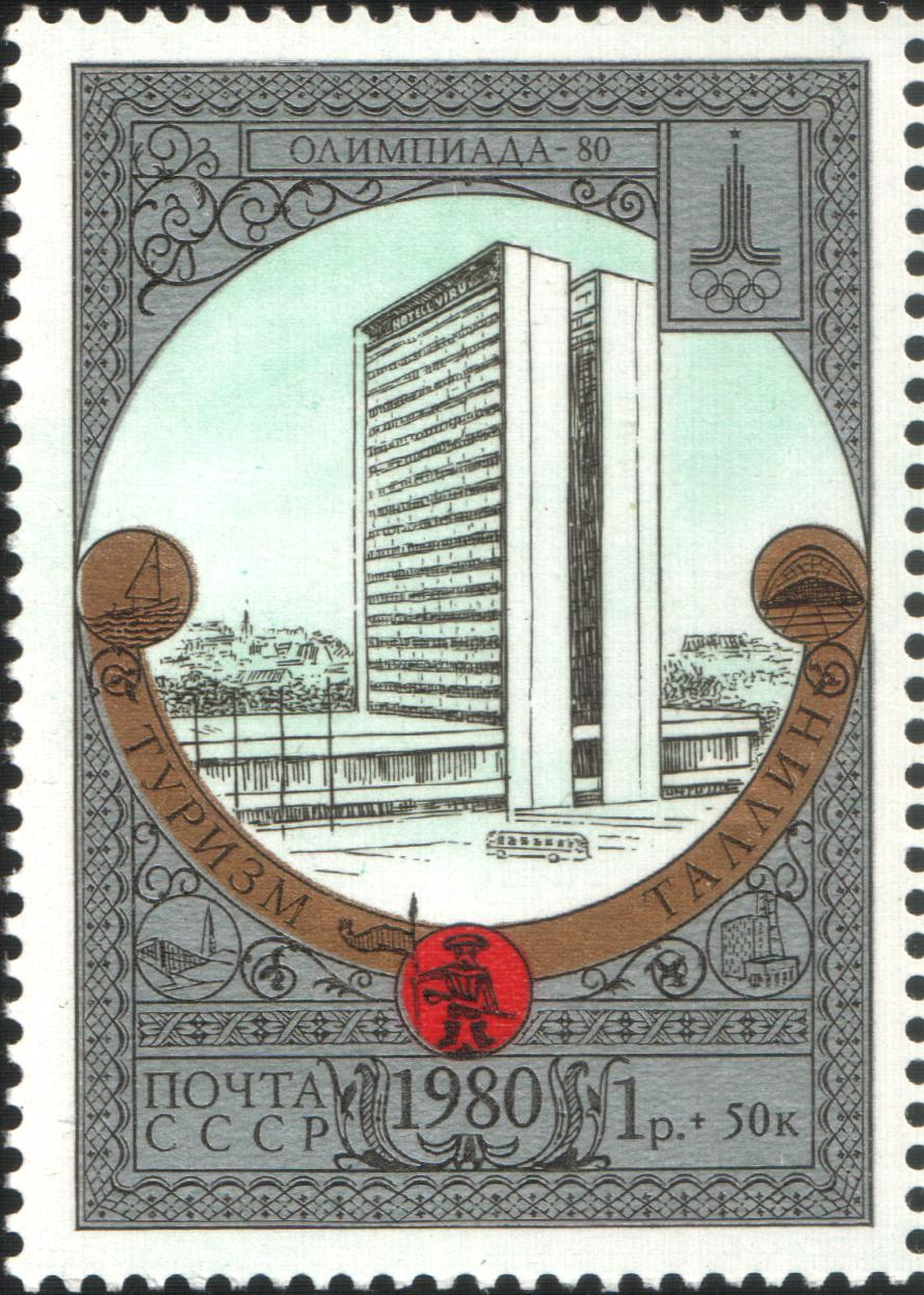 USSR stamp